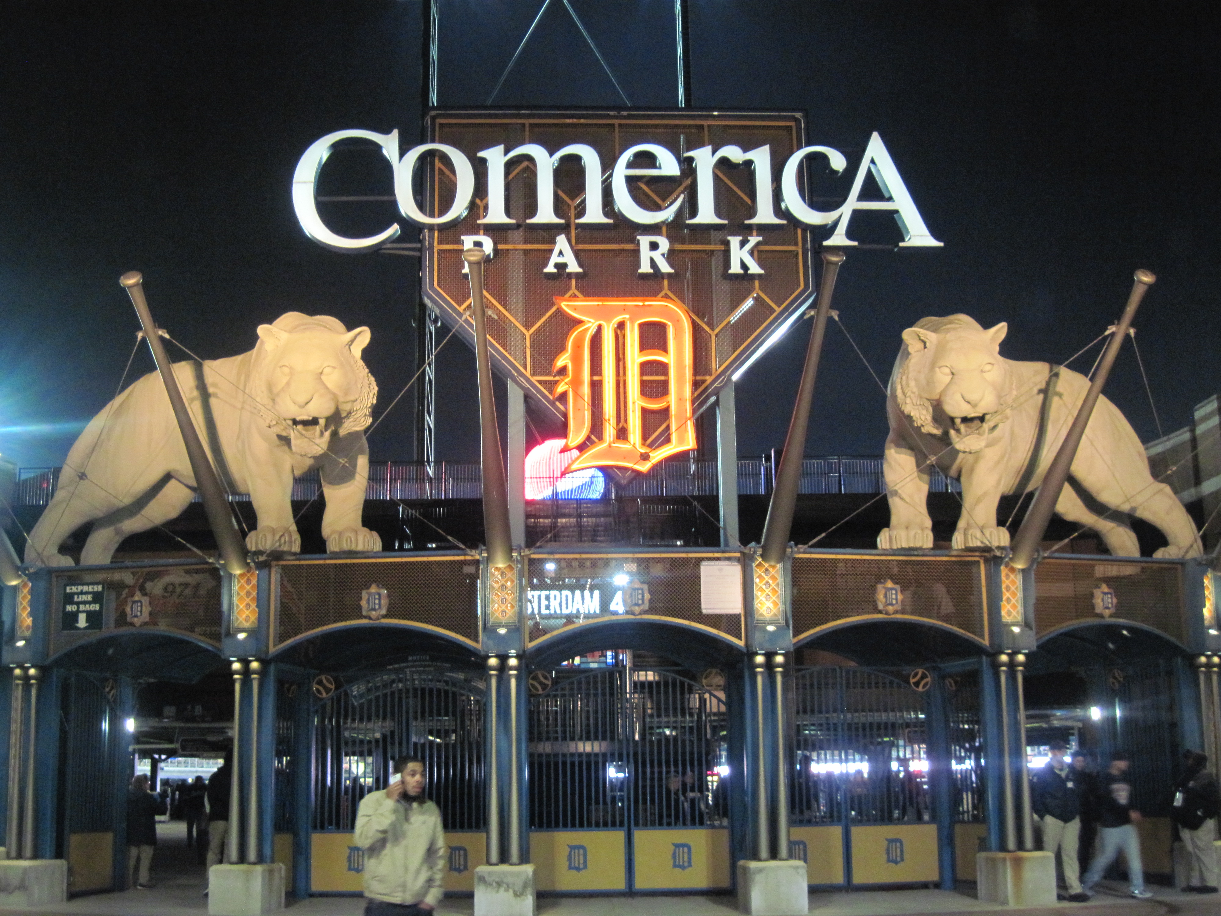 The front entrance of Coamerica Park, the home of the Detroit Tigers.